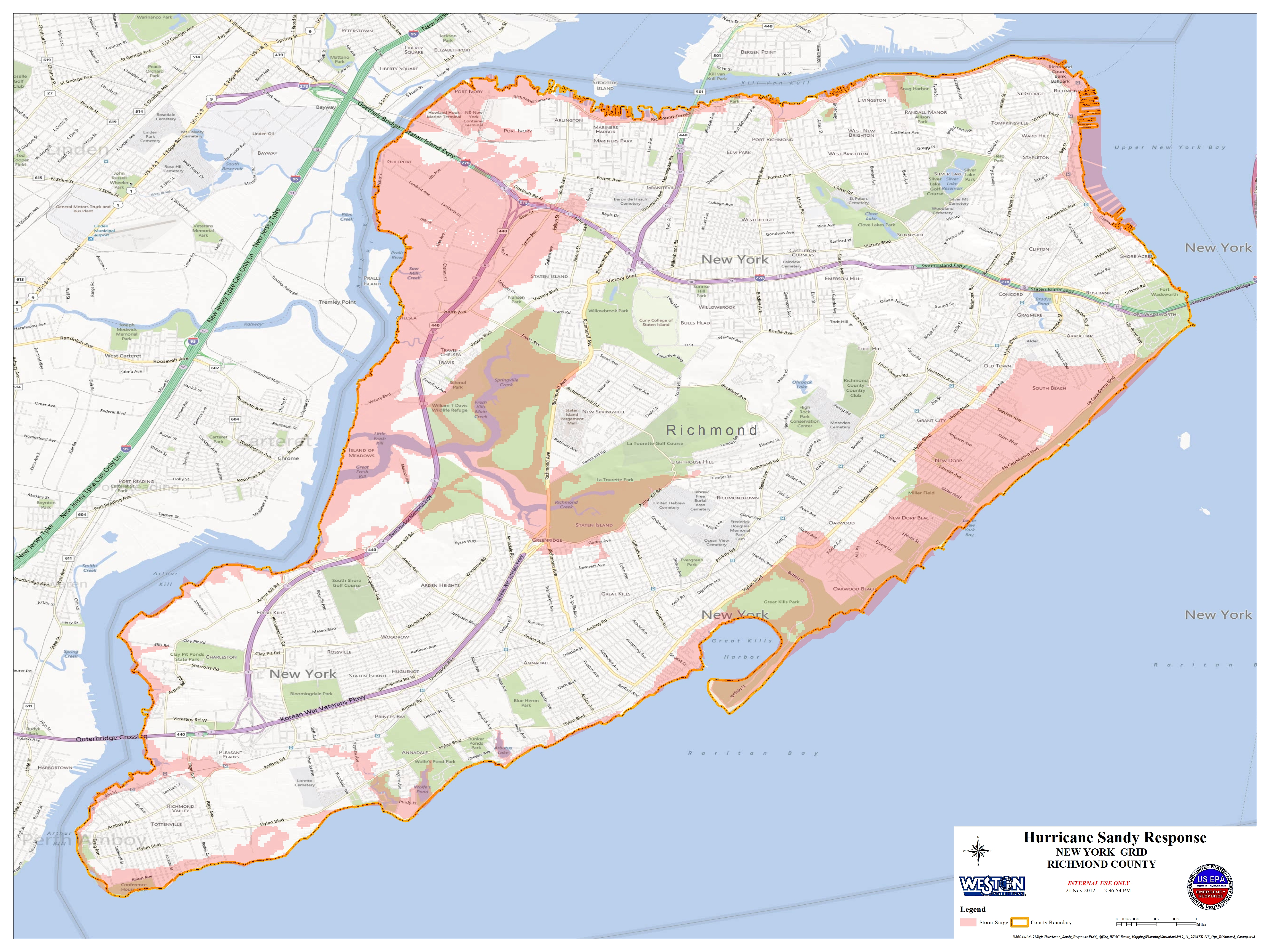 We're working with the New York City Department of Sanitation to collect and properly dispose of potentially hazardous common household products from flood-damaged homes and residences in New York City through Dec. 2, 2012. Here's the map for Richmond County. Learn more about our Hurricane Sandy Response here